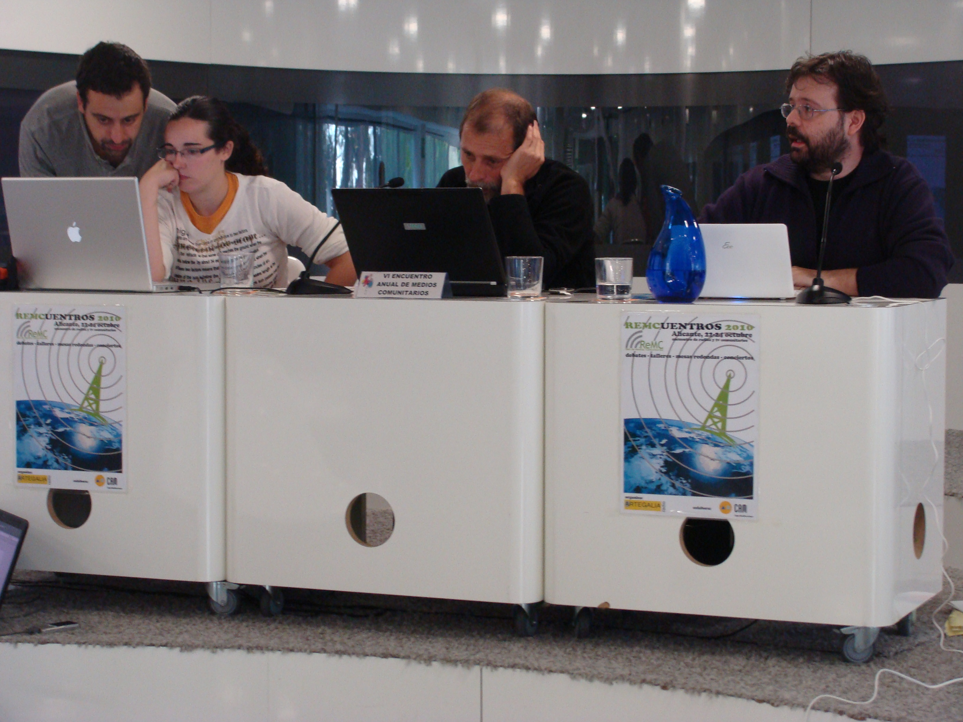 Javier García (Radio Almenara), Miriam Meda (Radio Ritmo), Mikel Estarrona (TasTas Irratia) and Mariano Fernández (Cuac FM), in IV Assembly of the Red de Medios Comunitarios, held on the occasion of the VI Encuentro de Medios Comunitarios, in (Alicante, España).